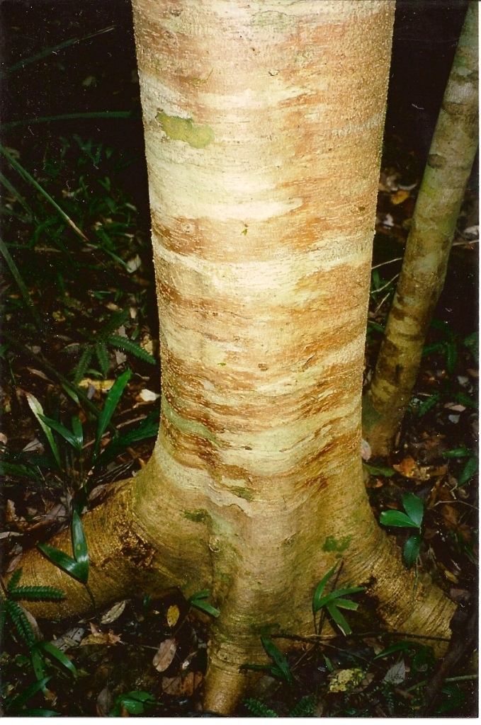 Acradenia euodiiformis_-_Nov_99 Coorabakh National Park